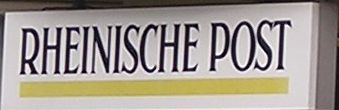 sign of the newspaper Rheinische Post at a newsstand